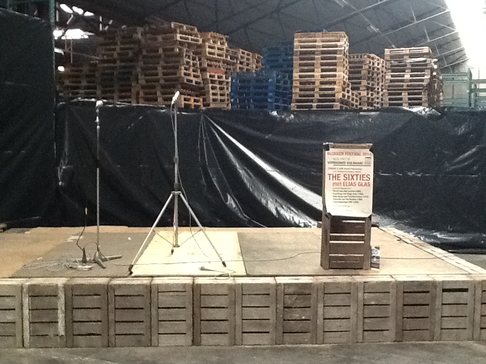 The stage used by The Beatles in Blokker on 6 June 1964 during their 1964 world tour, rebuilt for the 50th anniversary. Other information Photo taken during the 50th anniversary of The Beatles in Blokker, at the local Veilinghal.